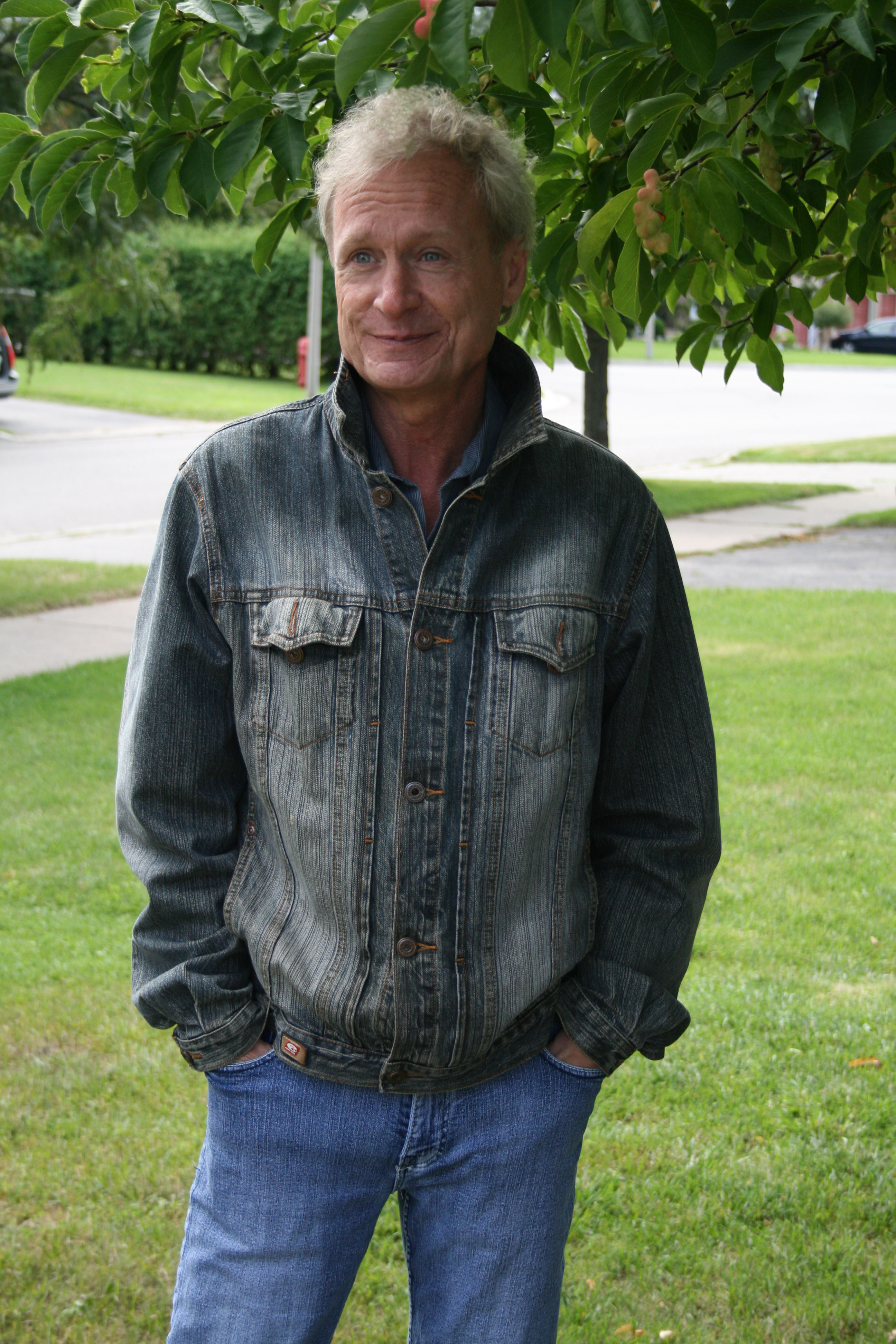 Bruce Powe during a photoshoot for his upcoming book.